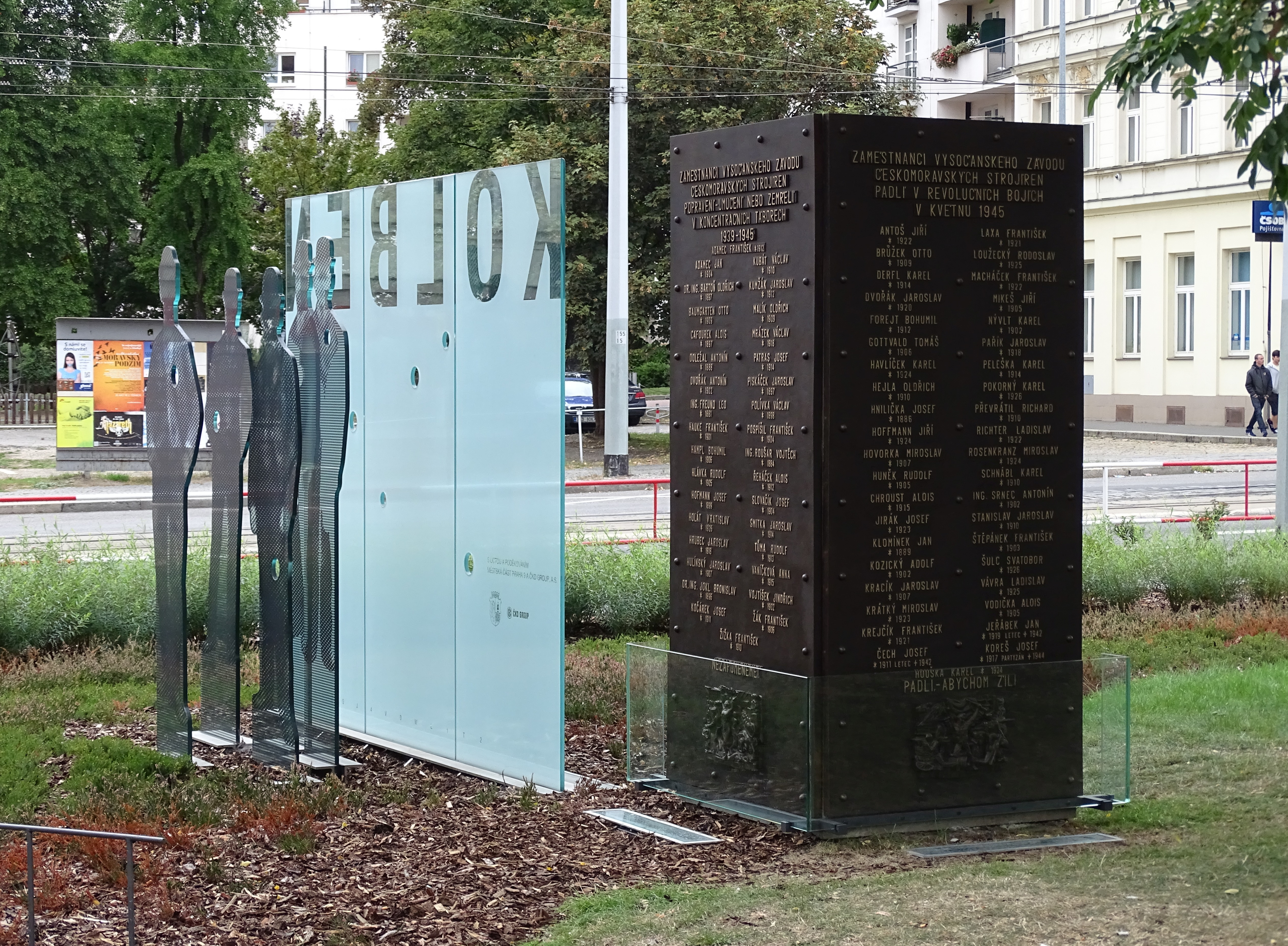 Prague-Vysočany, Czechia. Náměstí Organizace spojených národů, memorial to Emil Kolben and others.